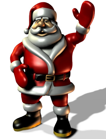 NORAD's version of Santa Claus